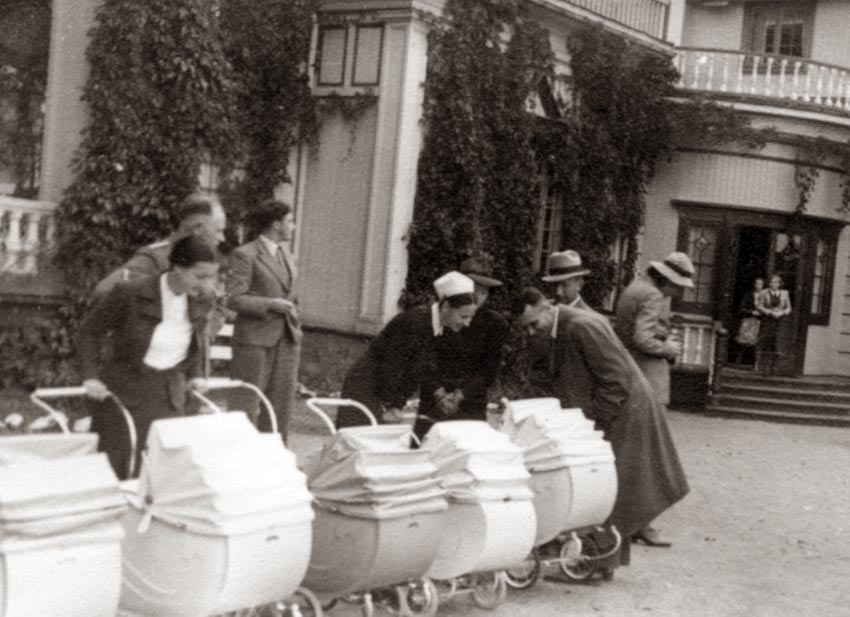 Die Leiterin in der Reichsfrauenführung Hauptabteilung Reichsmütterdienst, Frau Lienhardt, visits the first Lebensborn mother and birthcare home in Norway; Hurdal Verk in September 1941 just a few weeks after its opening. This was the first Lebensborn home established outside Germany. The National Archives of Norway, Abteilung Lebensborn, box 108, Photographs from a Lebensborn home, Hurdal Verk. Image from Flickr album "Krigsbarn (Lebensborn)" by Riksarkivet (National Archives of Norway). Photos from Lebensborn birth houses in Nazi German occupied Norway during World War II.